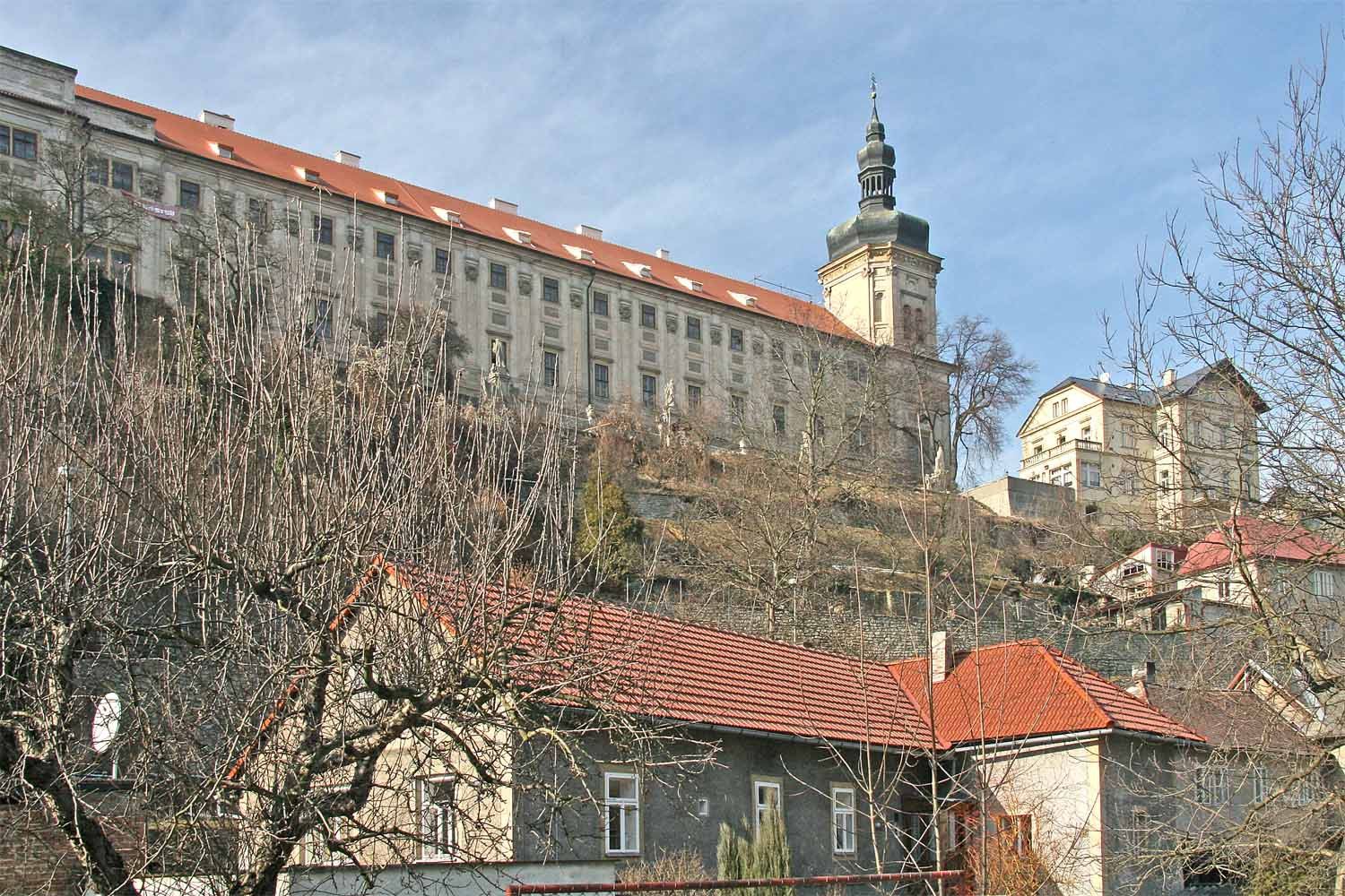 Jesuit College, Kutna Hora